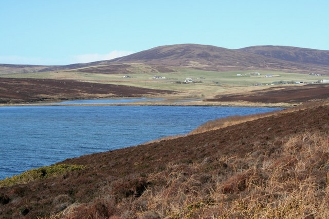 View of Waulkmill Bay, Orphir, Orkney. High spring tide, sandy beach backed by a bar enclosing a salt marsh